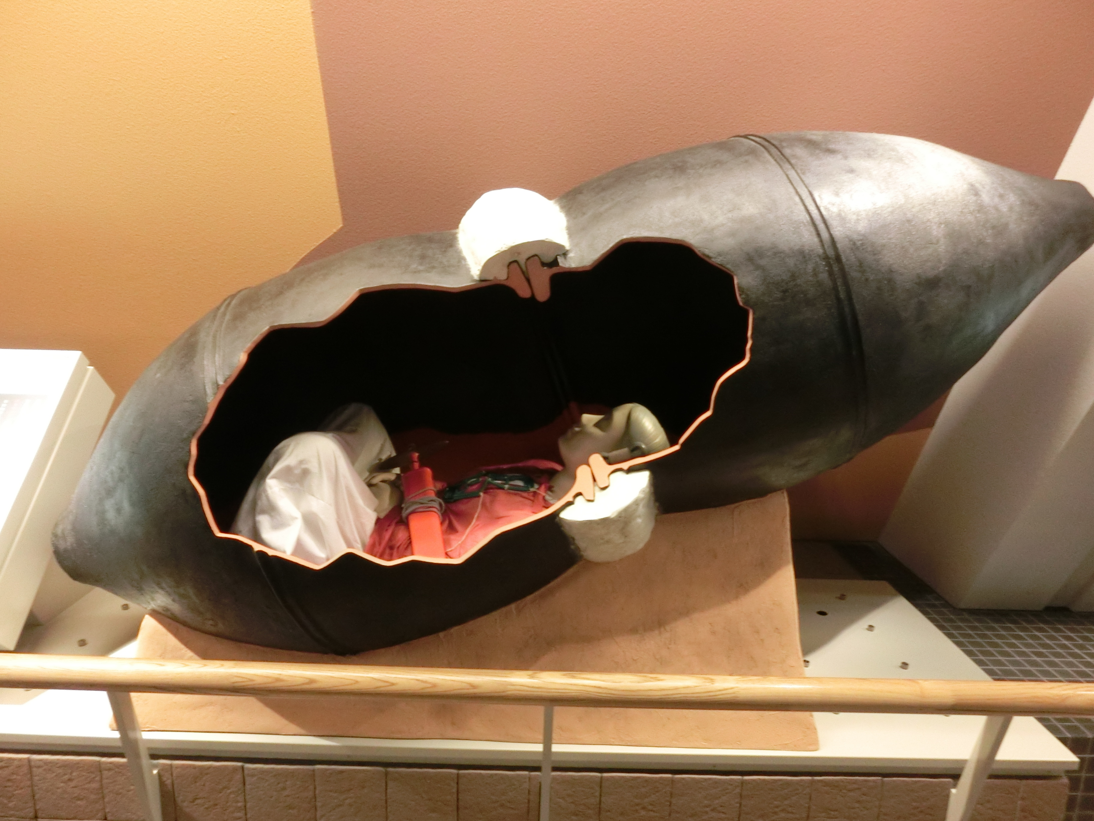 Jar burial model